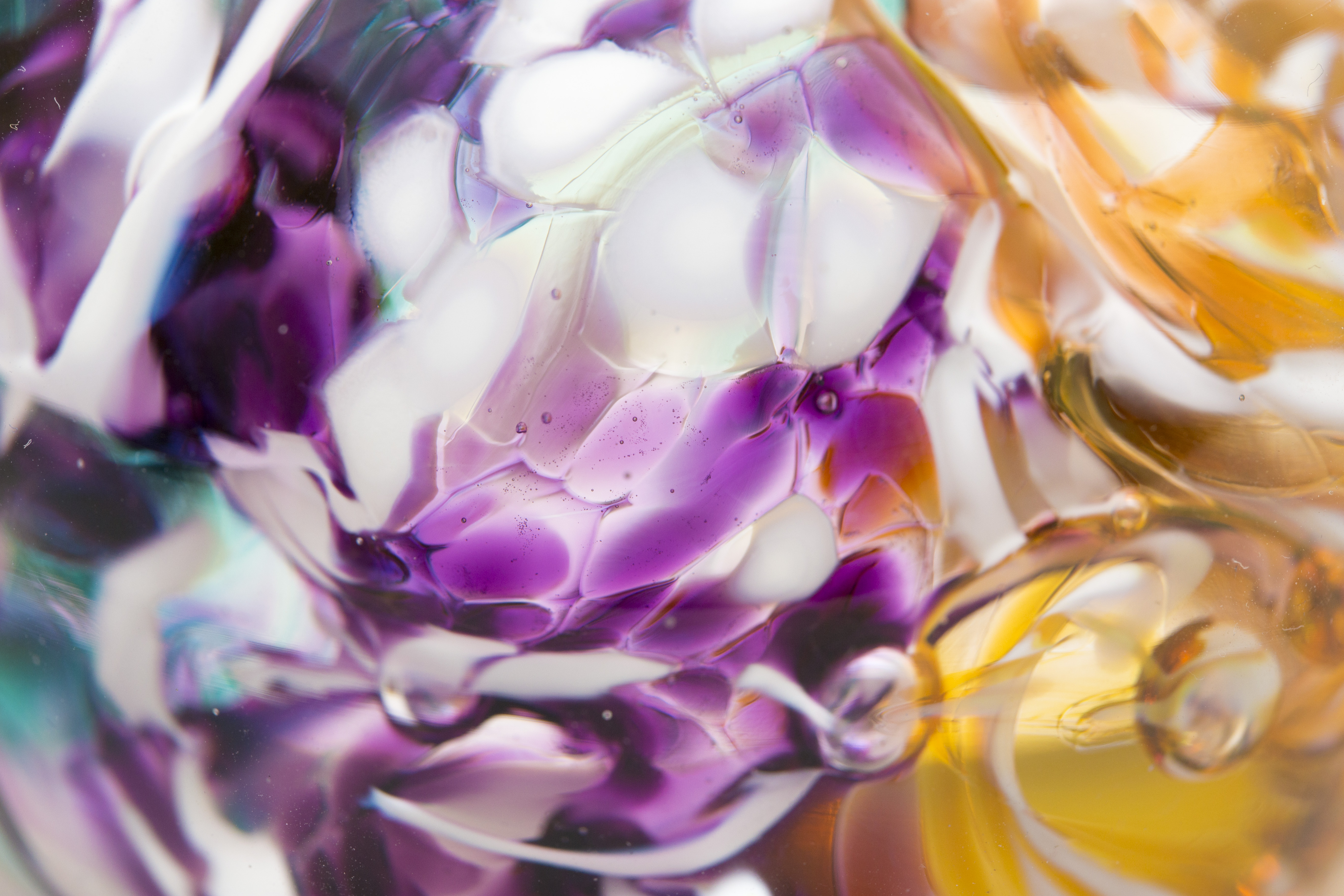 This is a magnification of glass. The smooth and edge forms are due to slow or fast transitions of temperature of silicon. The colors are due to inclusions which cause light to be absorbed into the silicon. The bubbles are trapped air pocket that were caught during the transition during annealing.